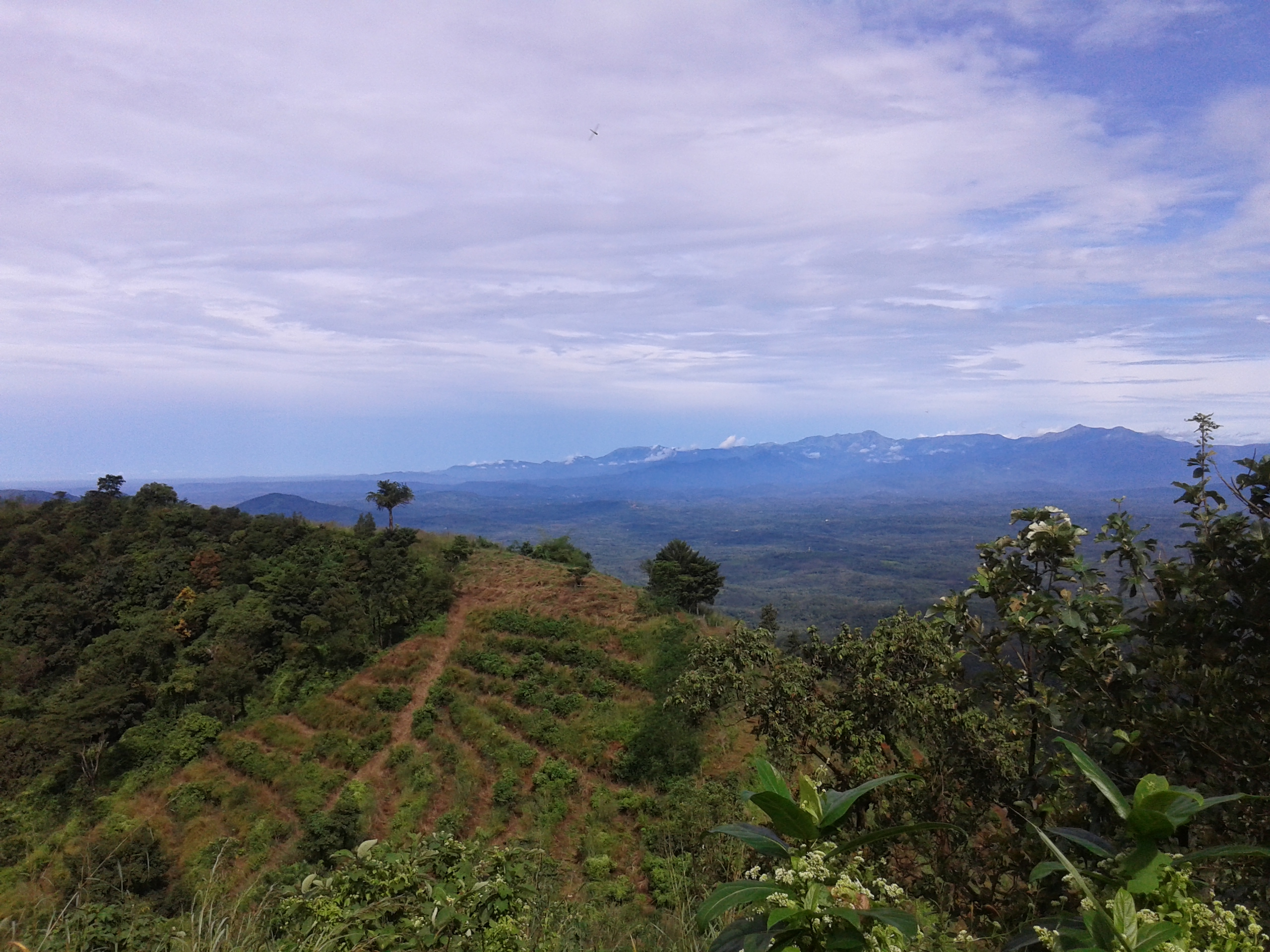 Elapeedika